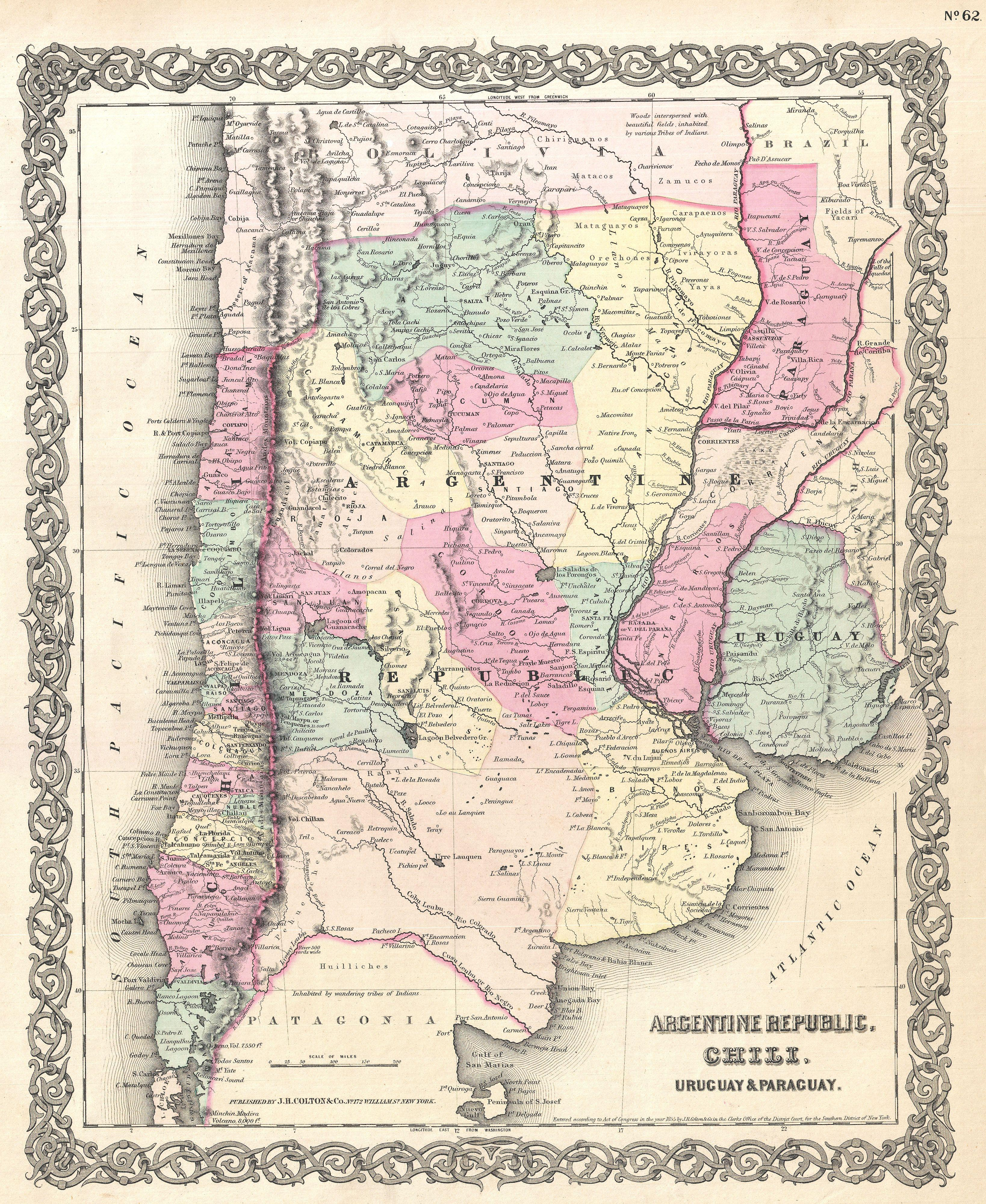 An excellent first edition example of Colton's rare 1855 map Chile, Argentina, Paraguay and Uruguay. Covers from Bolivia to Patagonia and from the Pacific to the Atlantic. Shows Bolivia's claims to the Atacama Desert which is today part of Chile. Indentifies a number of important mountains including Aconcagua, the highest elevation in South America. Throughout the map Colton identifies various cities, towns, forts, rivers, rapids, fords, and an assortment of additional topographical details. Map is hand colored in pink, green, yellow and blue pastels to define national and regional boundaries. Surrounded by Colton's typical spiral motif border. Dated and copyrighted to J. H. Colton, 1855. Published as page no. 62 in volume 1 of the first edition of George Washington Colton's 1855 Atlas of the World .